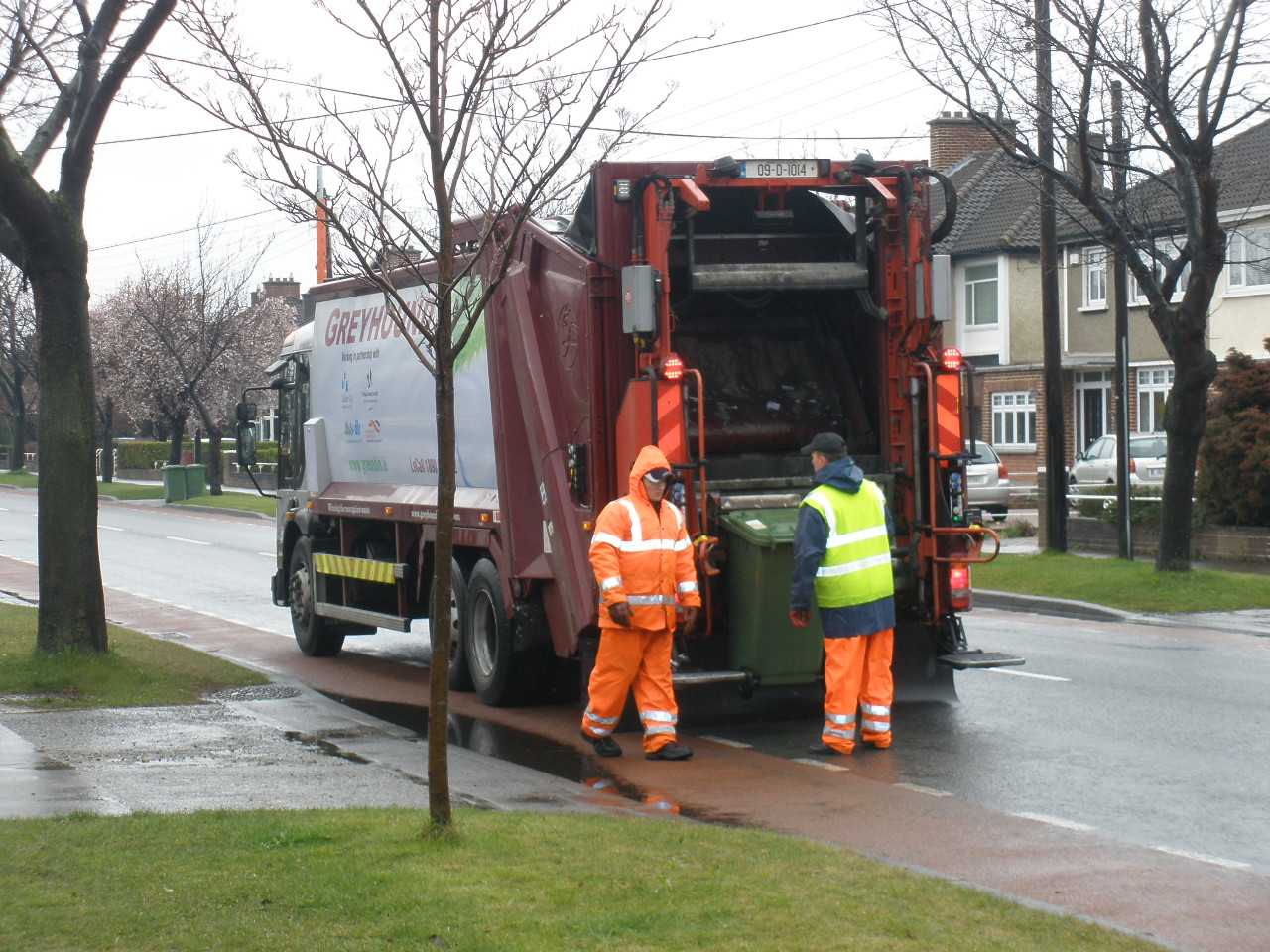 Green bin containing rubbish for recycling having its fortnightly collection by a rubbish lorry on Templeville Road in Dublin, Ireland.